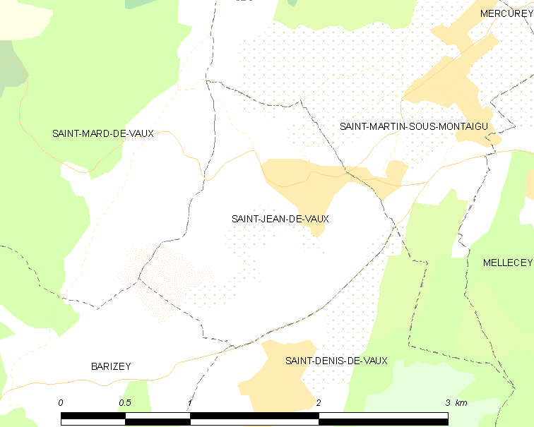 Map of French municipality